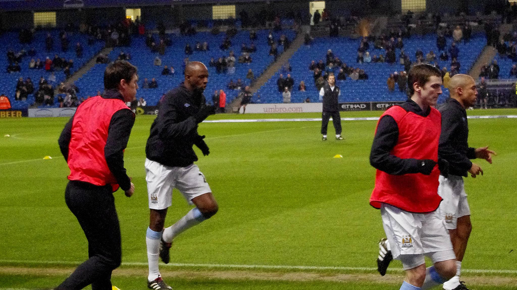 Manchester City players warming up.